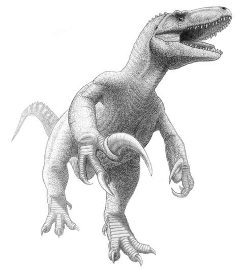 Originally described as a massive dromaeosaurid M. namunhuaiquii is now recognized as having been a basal tetanurine.